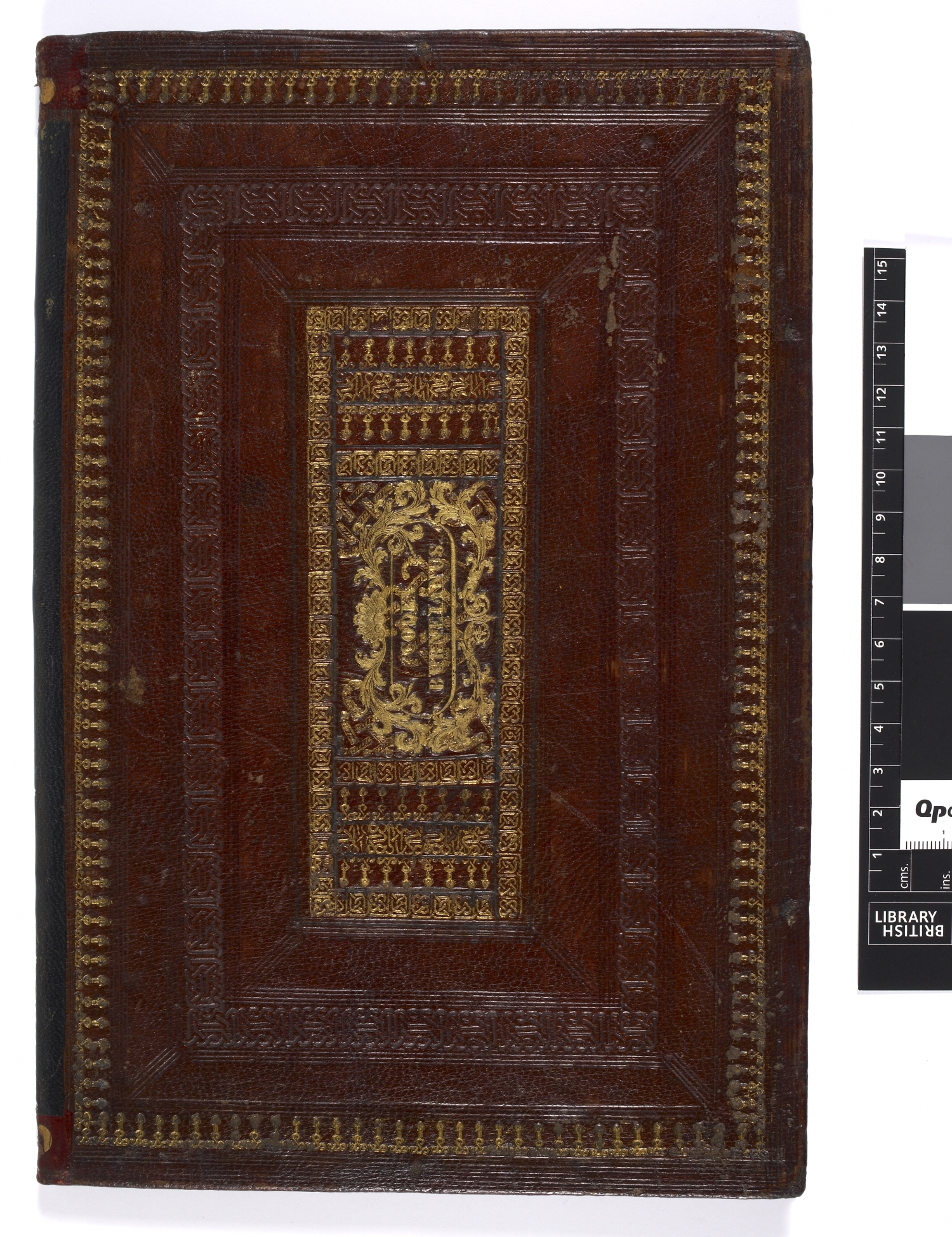 Style: Knotwork/ropework|Panel design; Caption: Upper cover; Colour: Brown; Edge: Unspecified